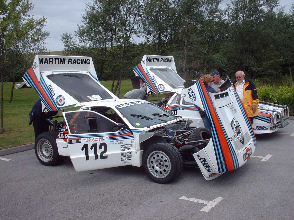 An ex-Markku Alén and another Lancia Rally 037 at the Lancia Motor Club AGM 2004.